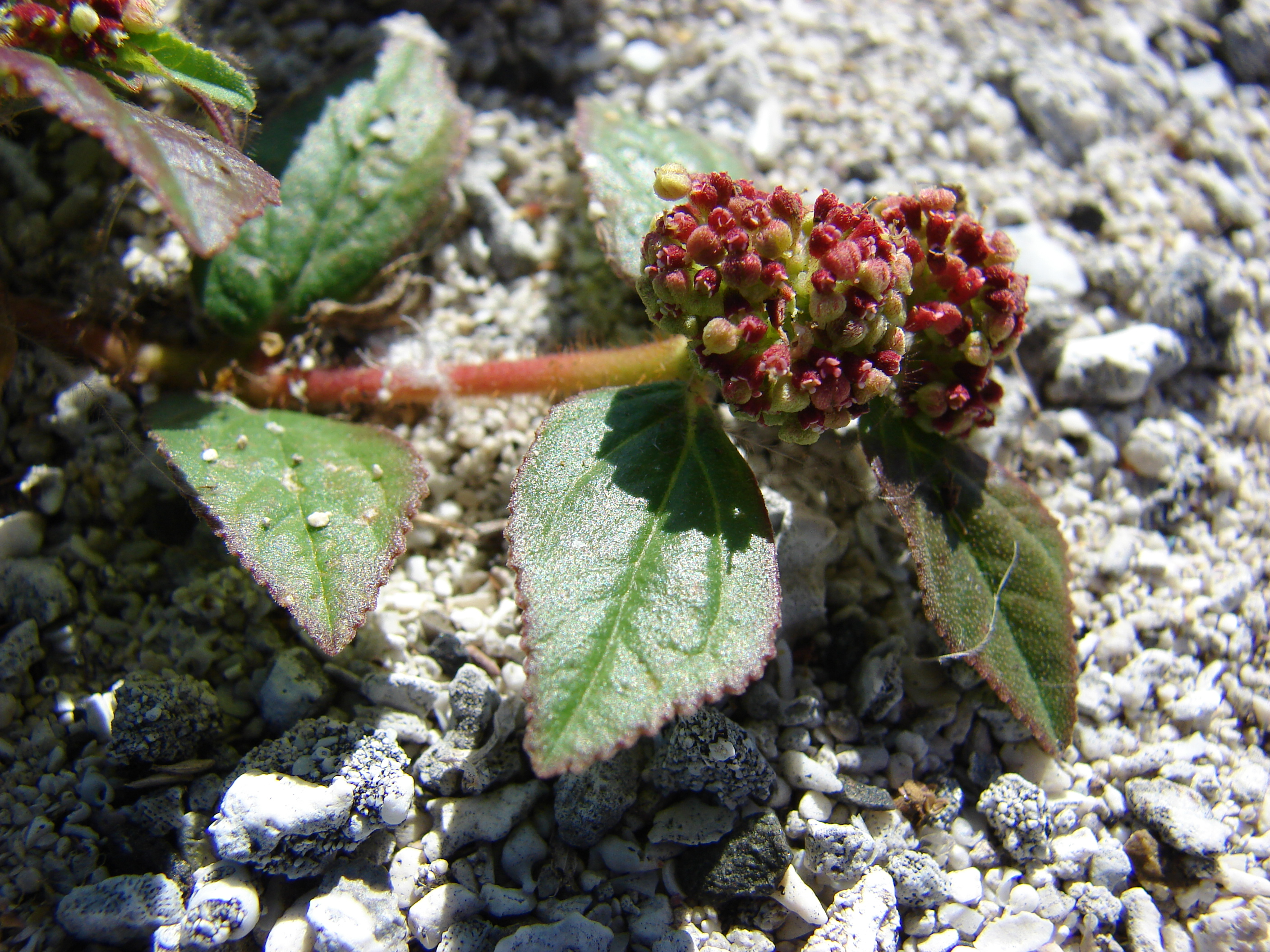 Chamaesyce hirta (flowers and fruit). Location: Midway Atoll, South Beach Sand Island